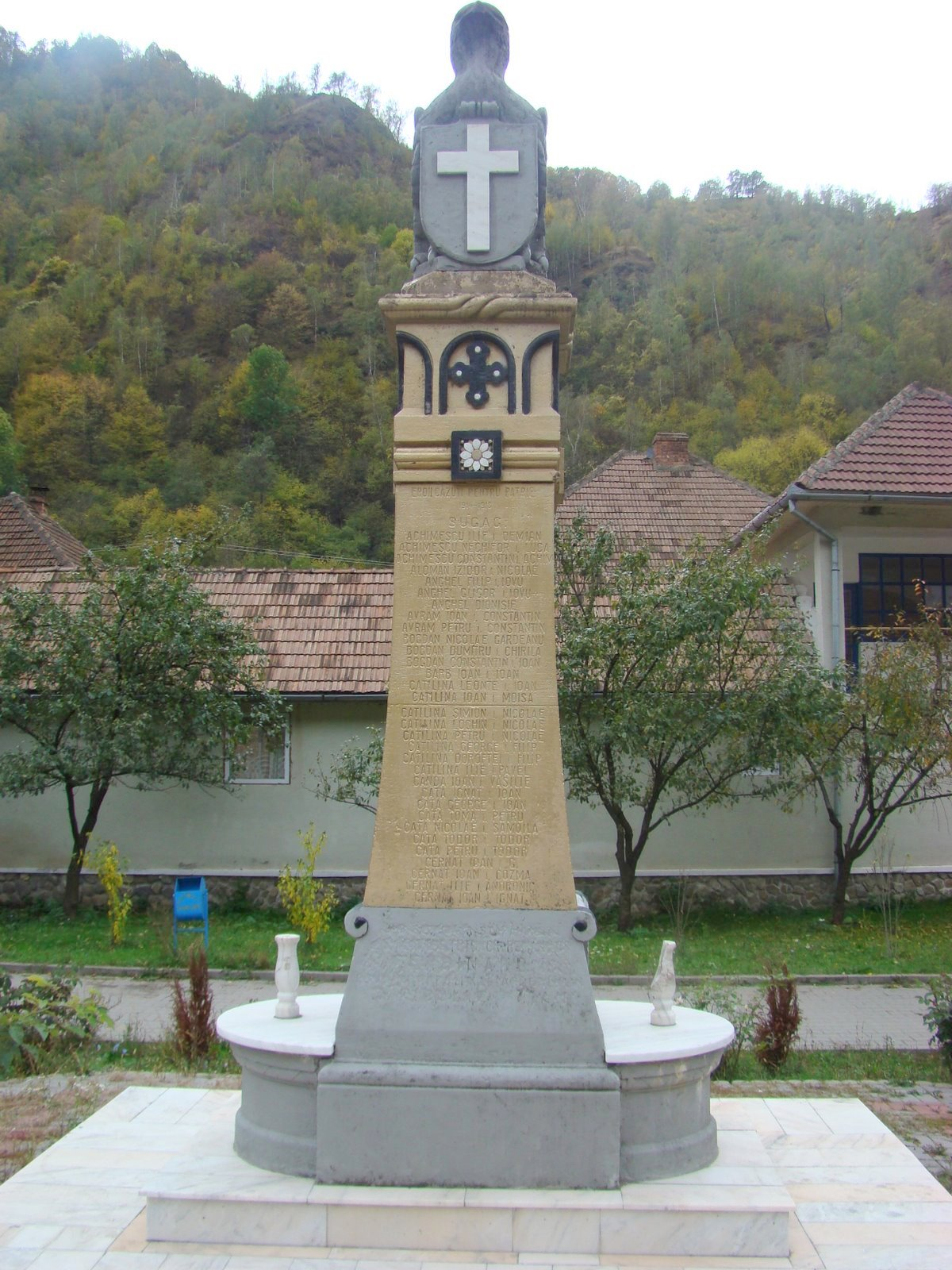 Șugag, Alba county, Romania